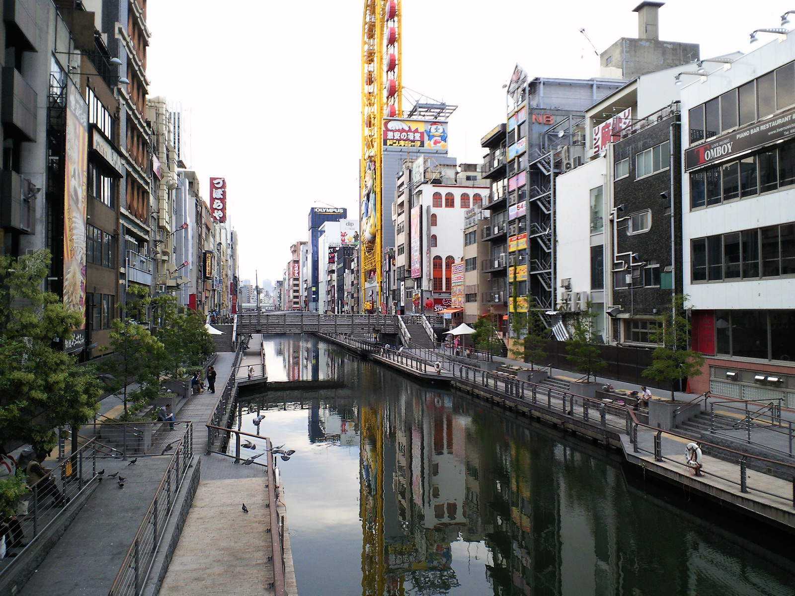 Tombori River Walk, Chuo-ku, Osaka